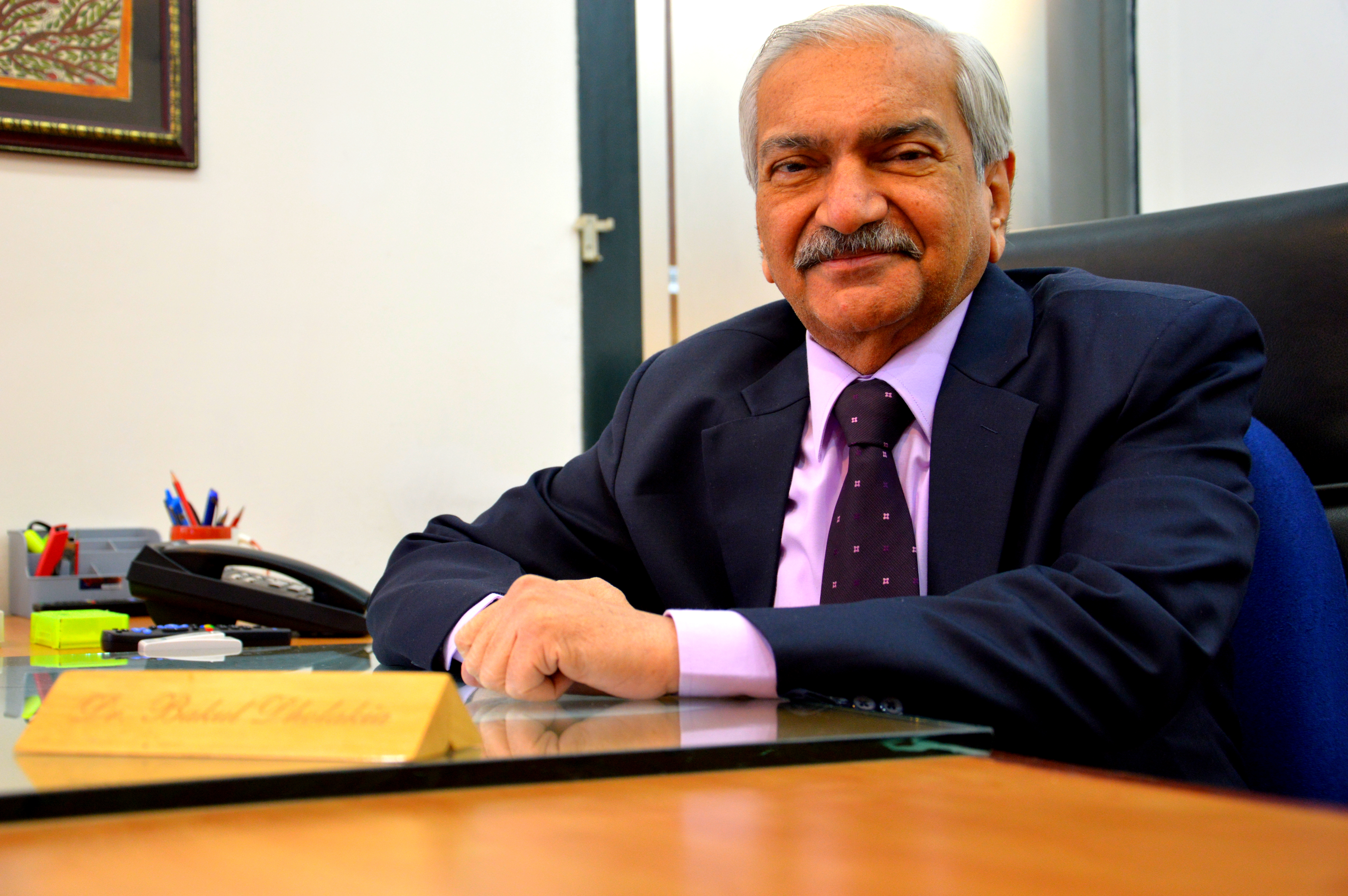 This file was taken in Dr. Bakul's office at IMI, New Delhi